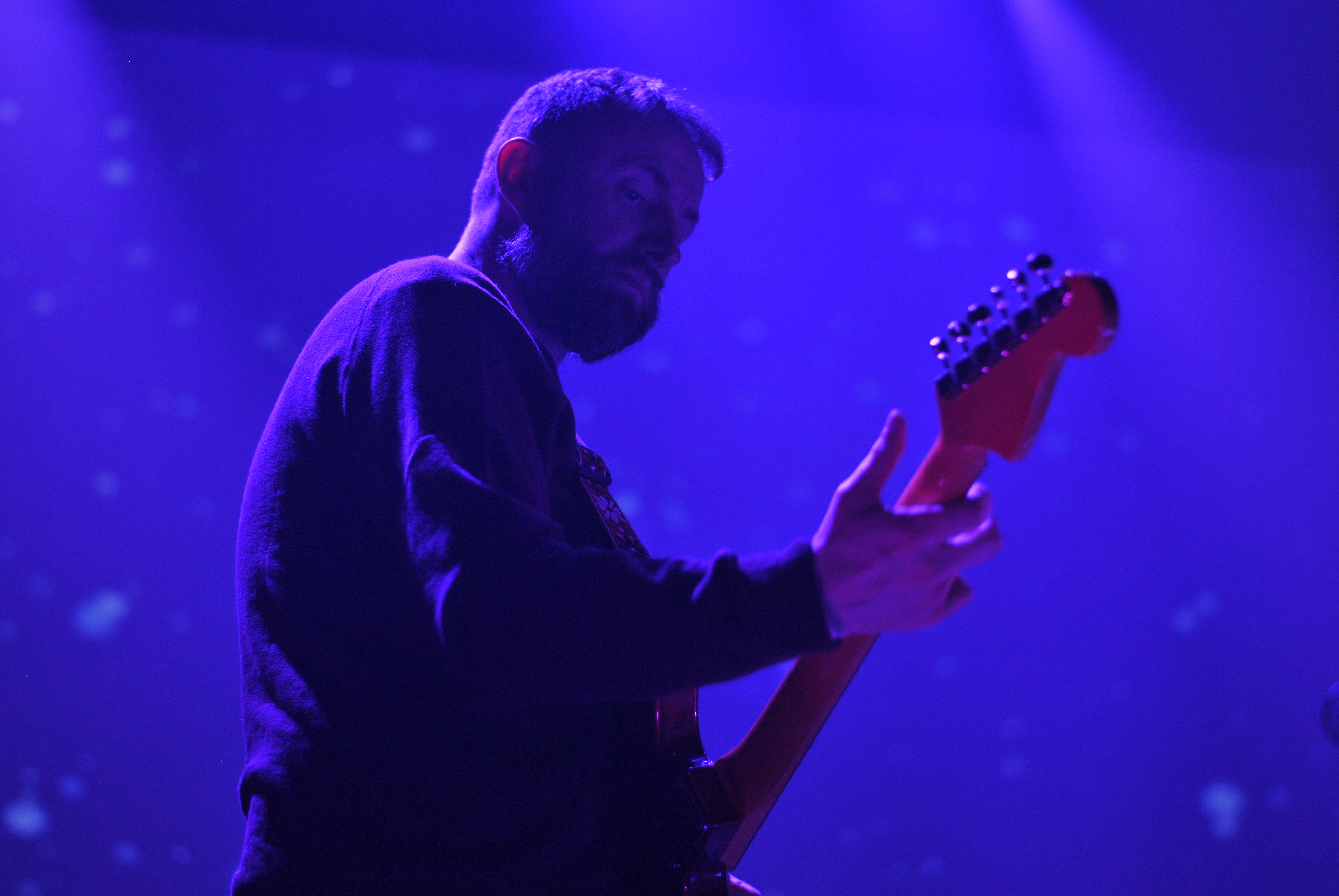 Christian Savill of Slowdive performs on stage in The Hague, Netherlands, 31st March 2017 during the Rewire Festival